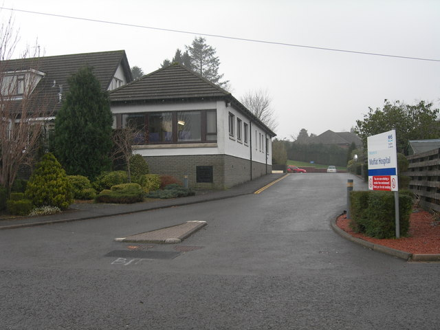 Moffat Hospital Shown on the OS map from 1995 but not on the Geograph version.